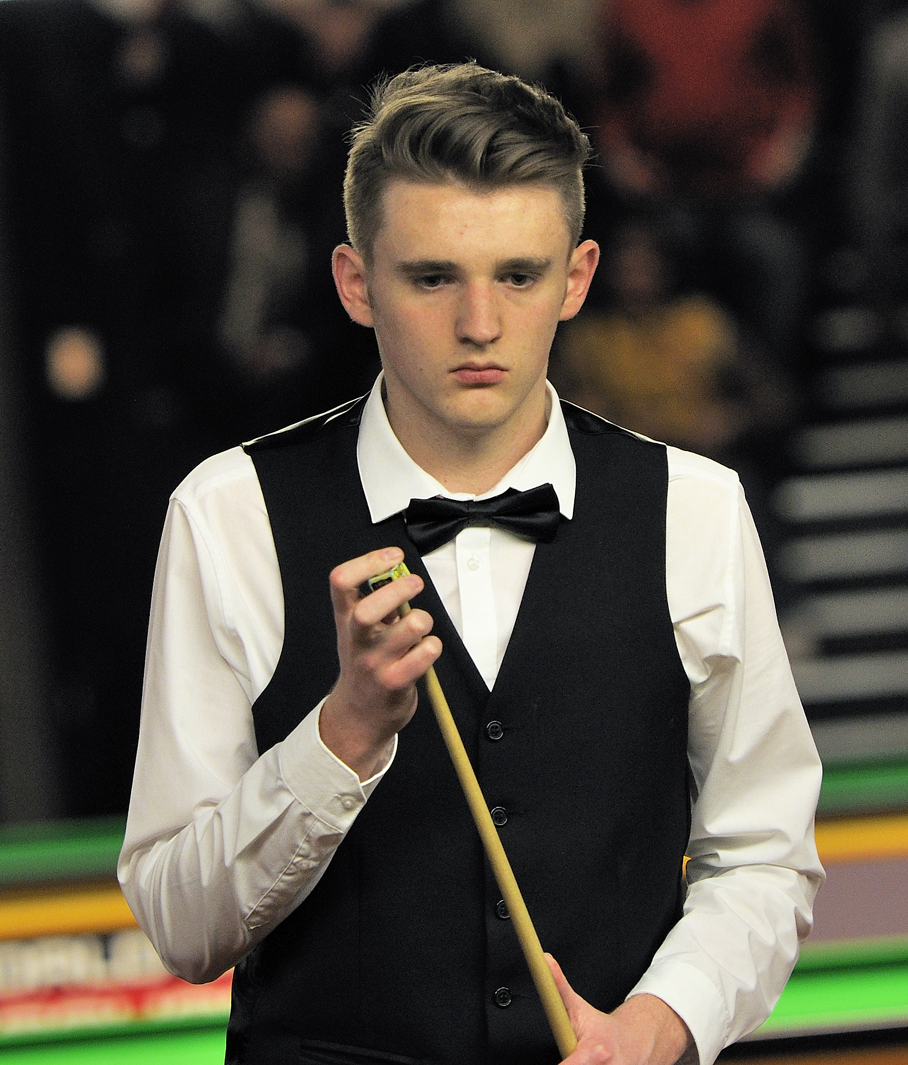 Picture taken in Berlin during the Snooker German Masters in 2014. Joel Walker.